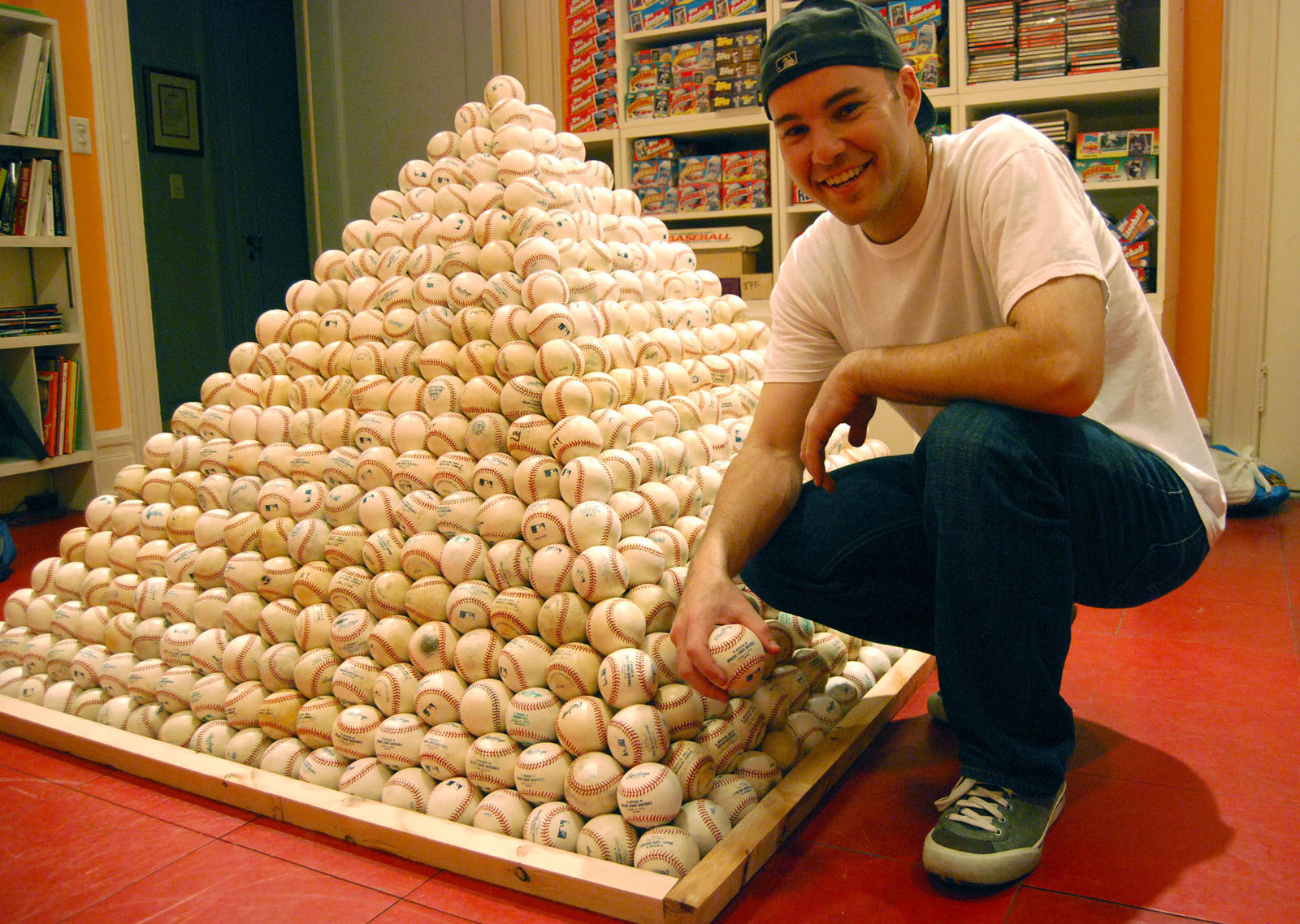 Zack Hample posing with a pyramid of baseballs.